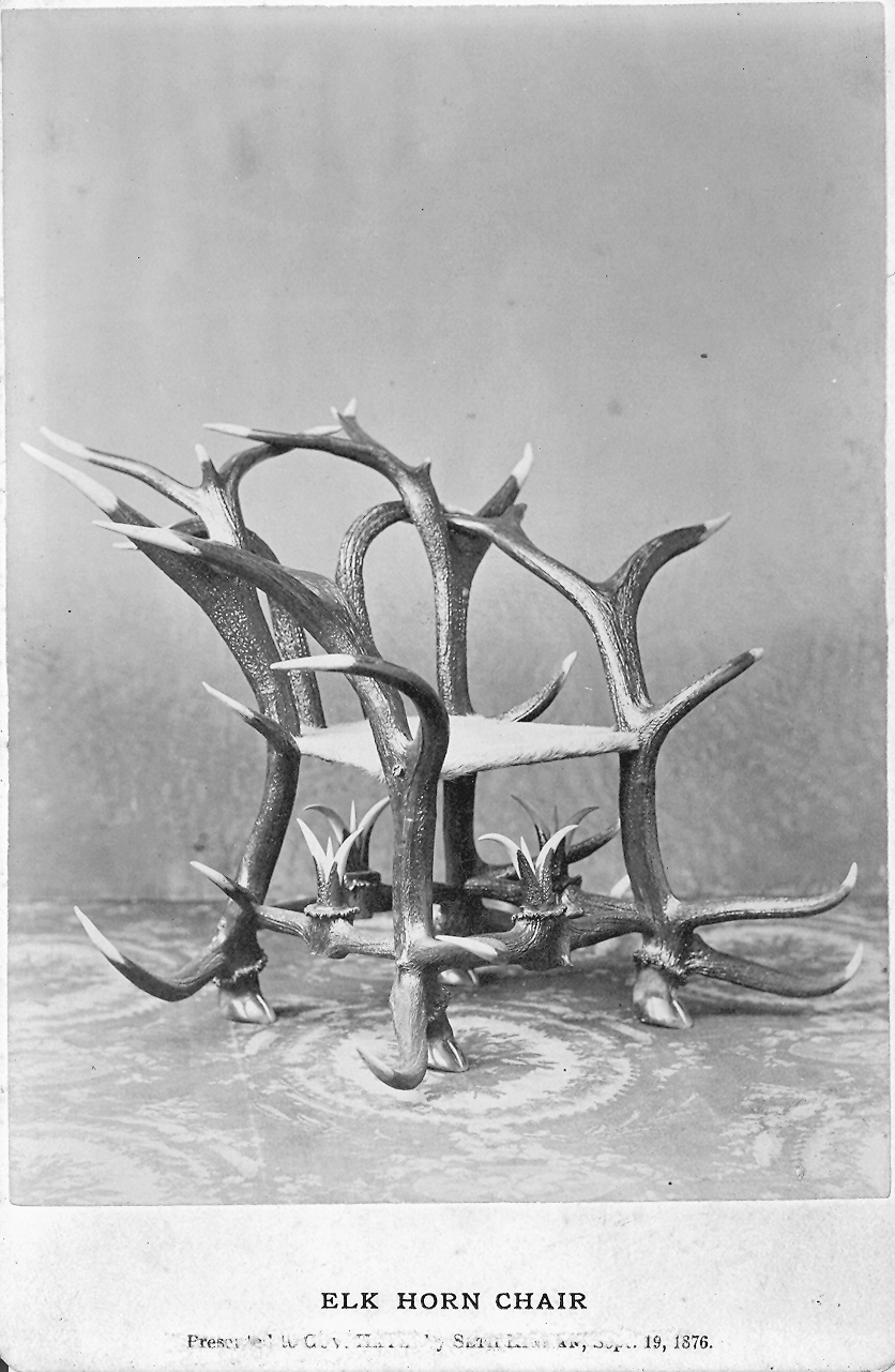 Photo or etching of Seth Kinman (died 1888) or of his famous chairs (last photo 1893)